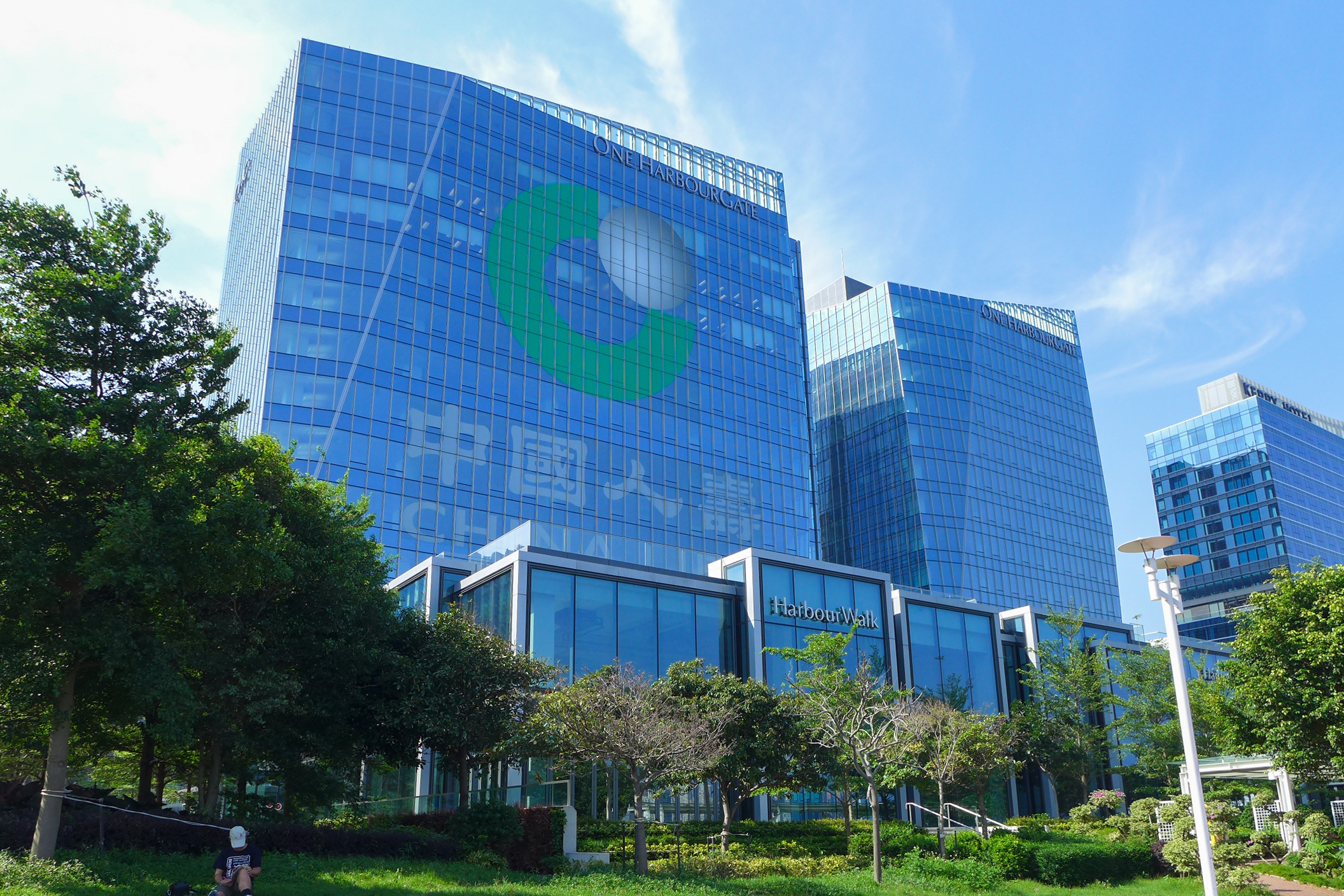 One HarbourGate